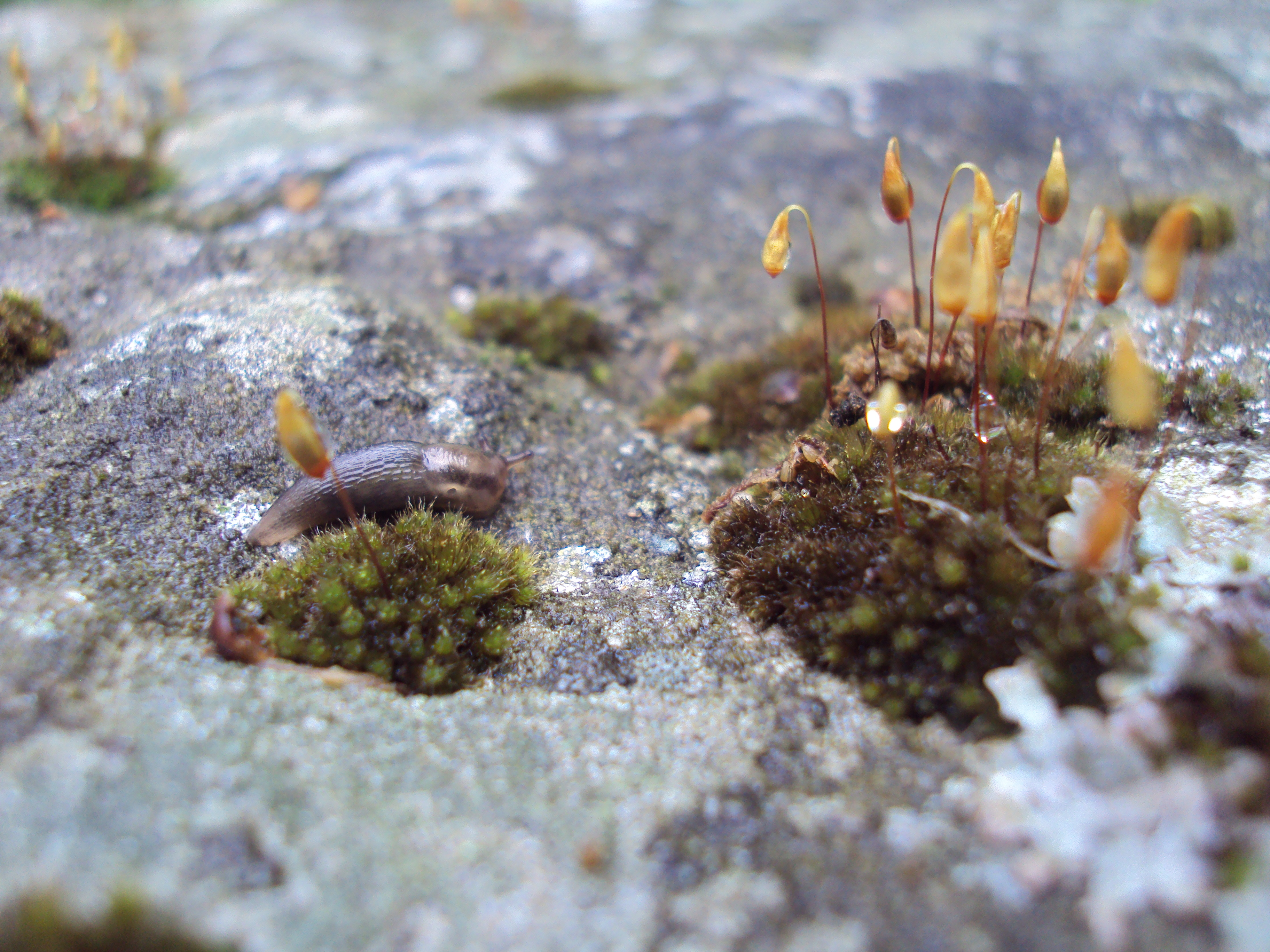 A slug Lehmannia marginata approaches moss growing on the brickwork of a rail bridge. Photo taken at Delamere Forest, Cheshire, England.